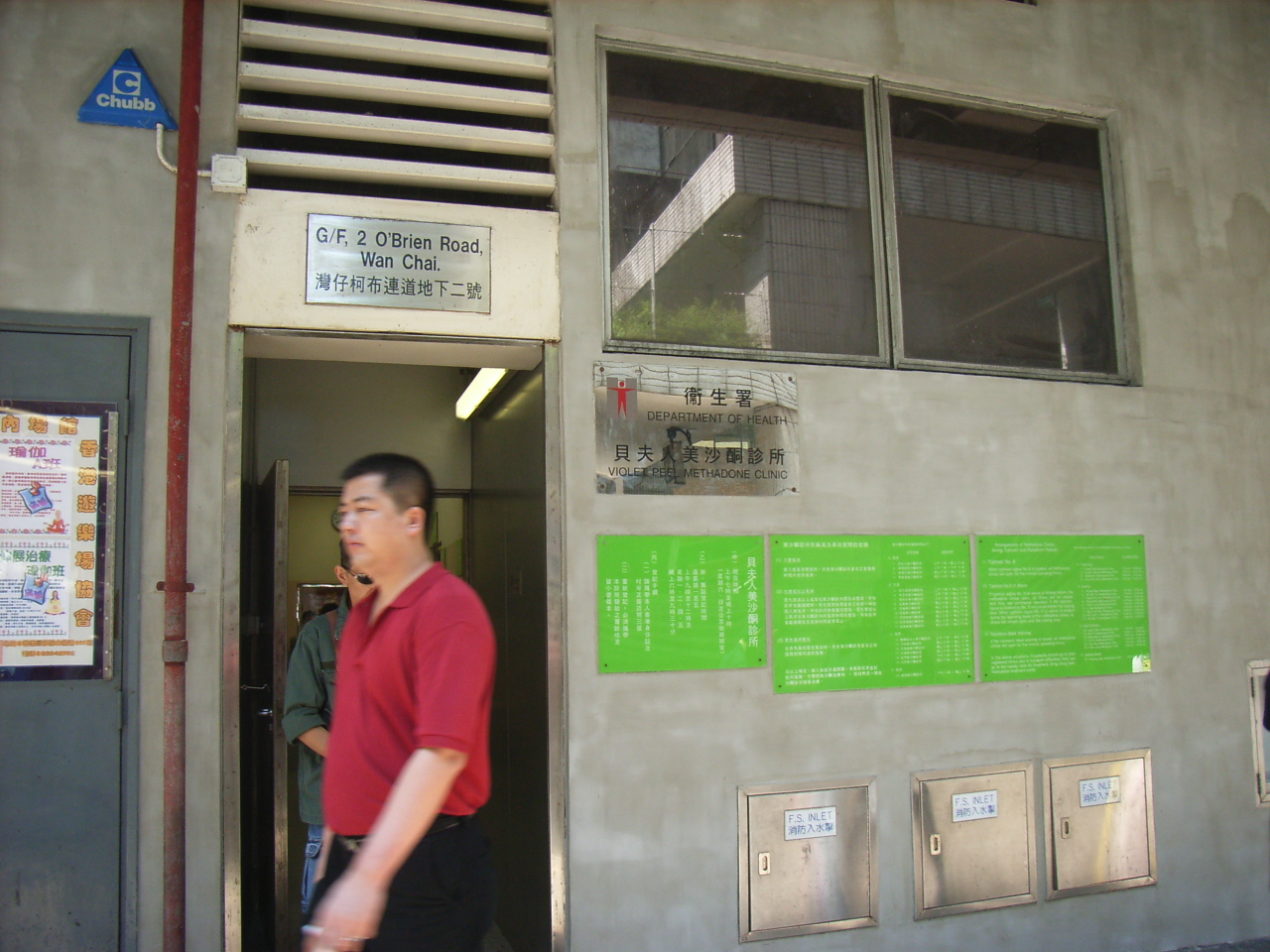 修頓花園 貝夫人美沙酮診所, Southorn Garden, Wan Chai, Hong Kong User:So Zhong Fa Yi